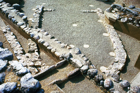 absidial building from the geometric period at Eretria